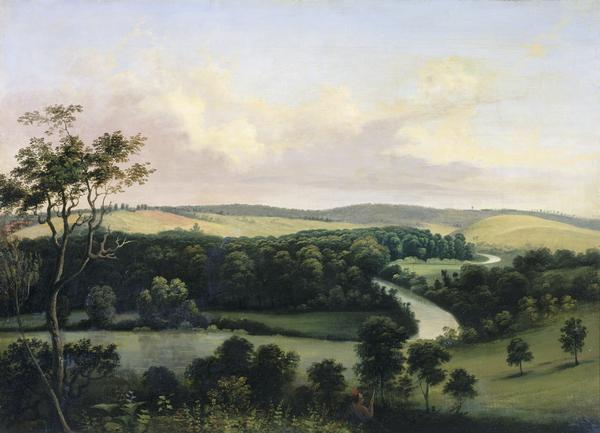 Battlefield at Horseshoe Bend (1832), painting by Samuel Mardsen Brookes (1816-1892): Pecatonica Battleground [1]